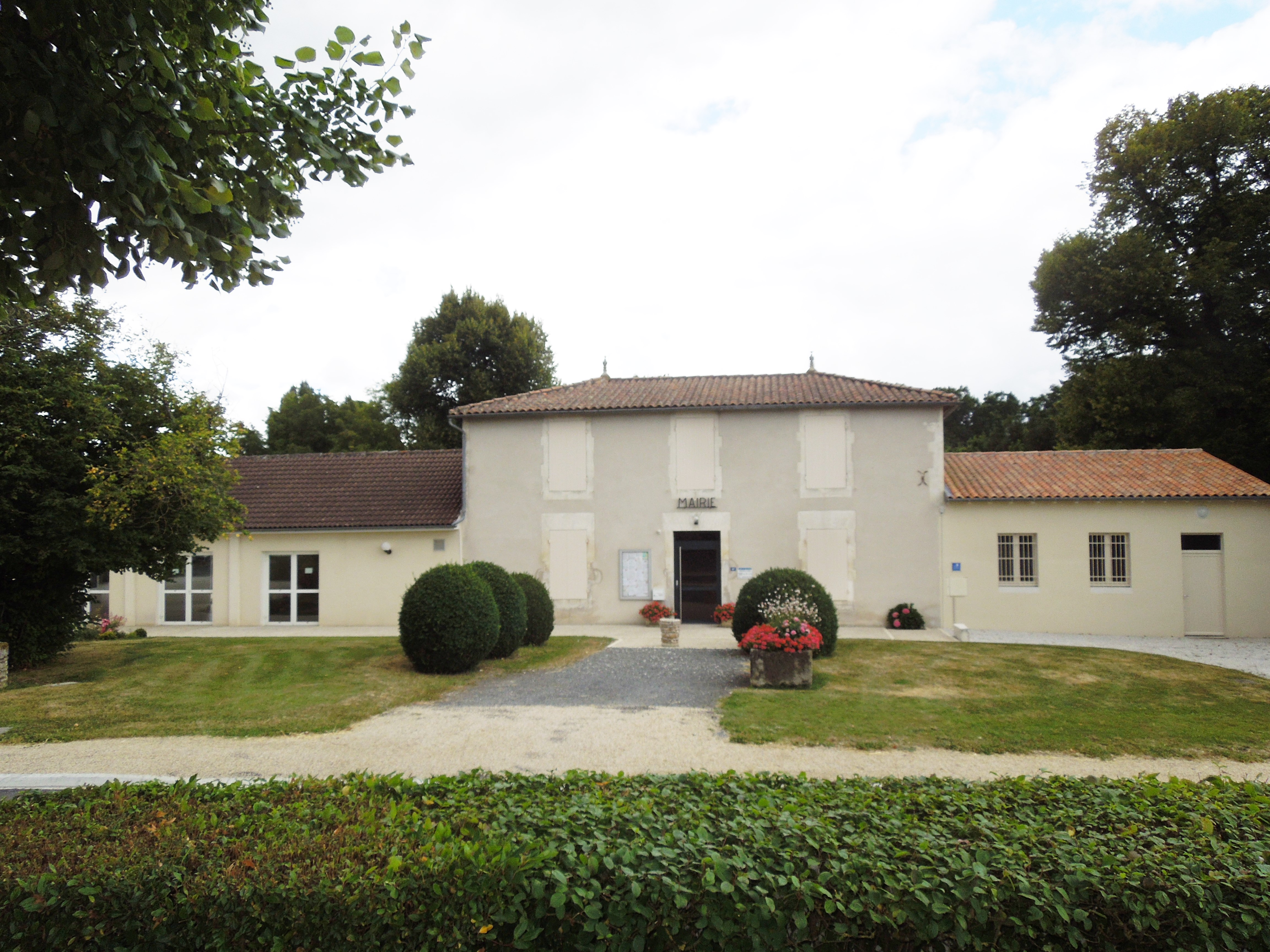 Saint-Eugene, mairie